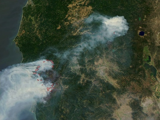 Satellite picture of the Biscuit Fire (2002) — in the Rogue River-Siskiyou National Forest, in California and Oregon. Over 500,000 acres (200,000 ha) of the eastern portion of the Chetco River watershed, and surrounding regions of the western Rogue River and other watersheds, were destroyed in the wildfire. It burned most of the Kalmiopsis Wilderness (180,000 acres [728 km²]) . Taken using MODIS via the Aqua Satellite on August 12, 2002, with actively burning areas outlined in red.